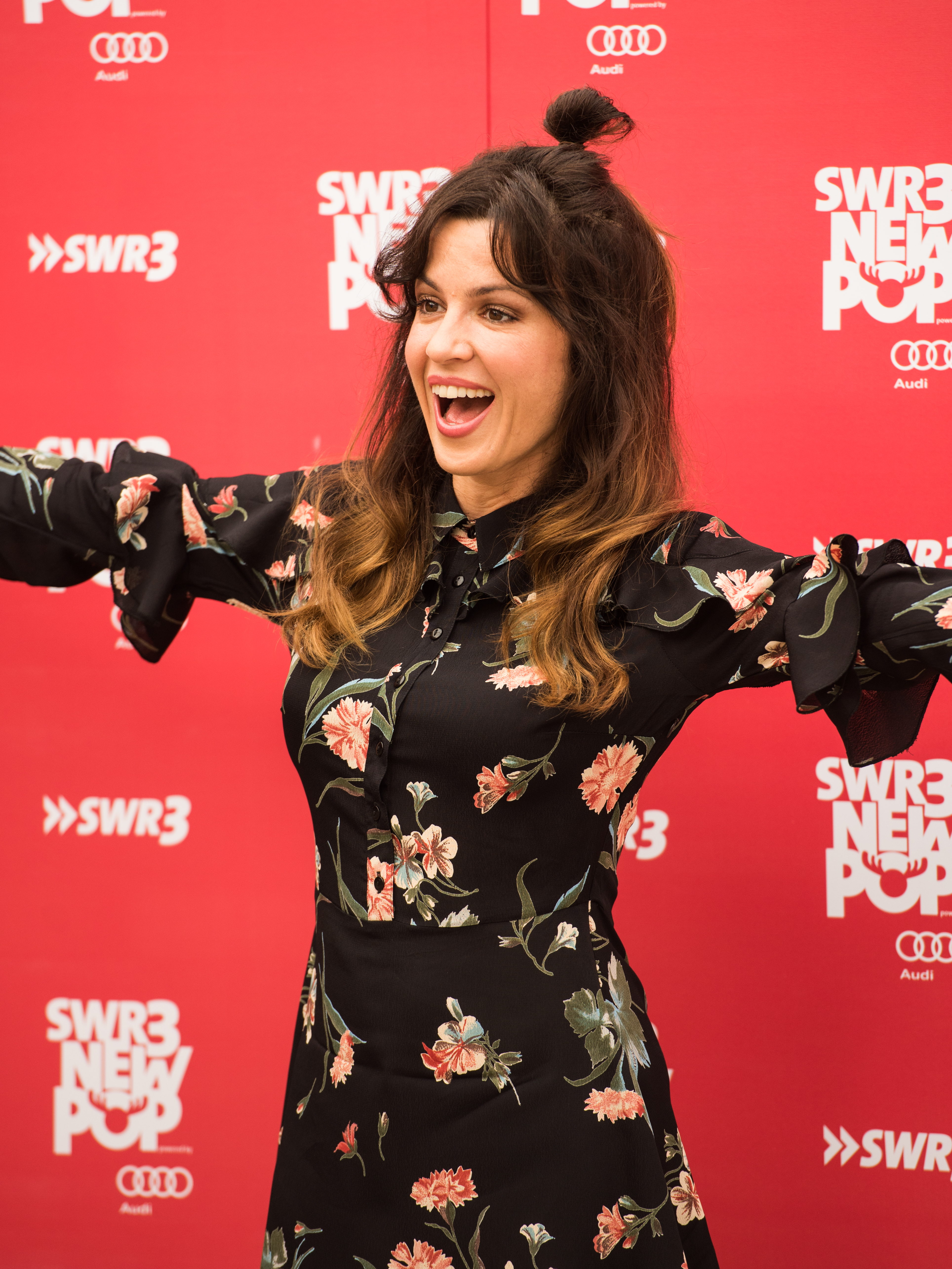 German actress Natalia Avelon at the SWR3 New Pop Festival 2017